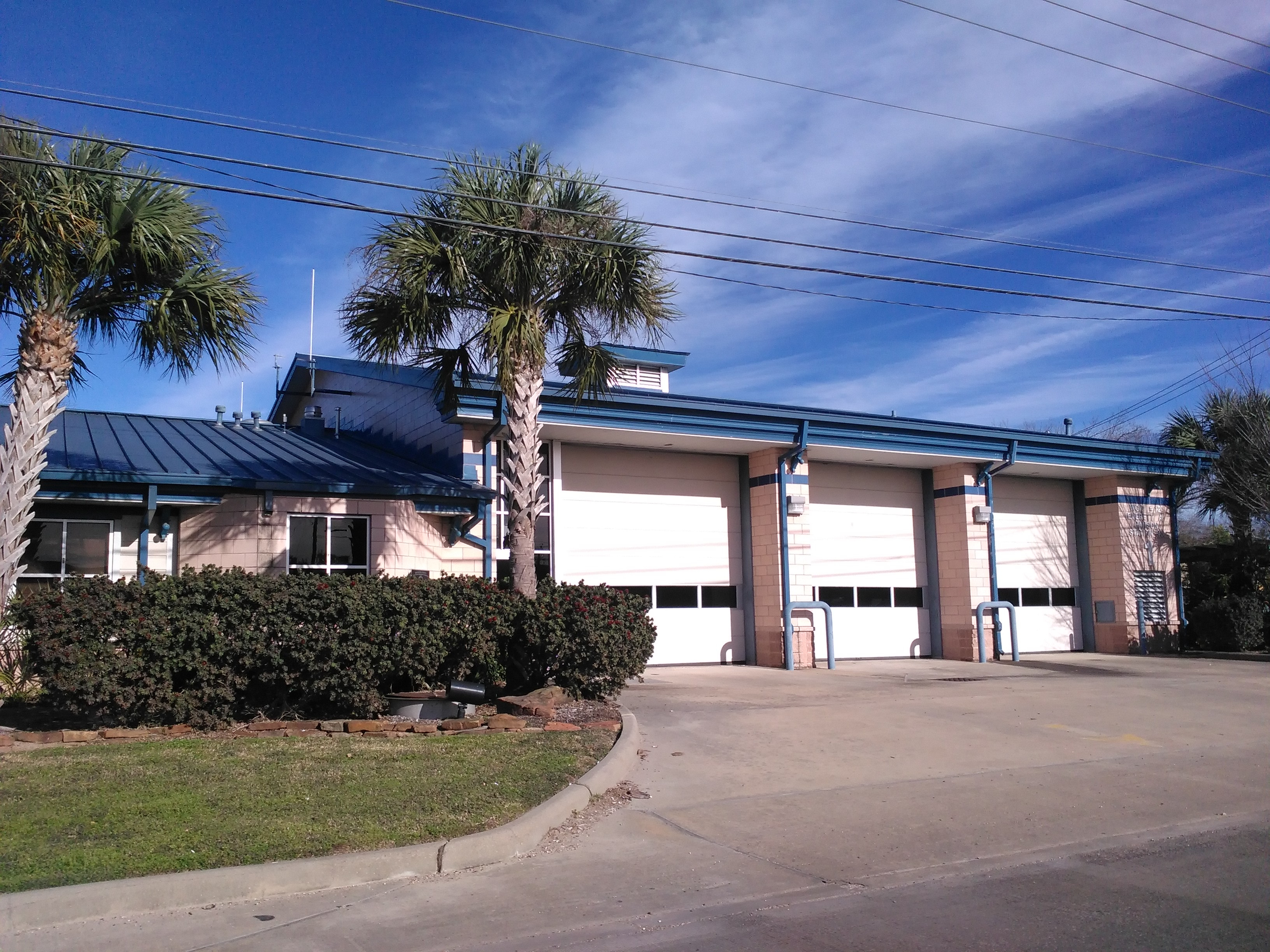 Kemah Fire Department - 905 Hwy 146 , Kemah, TX